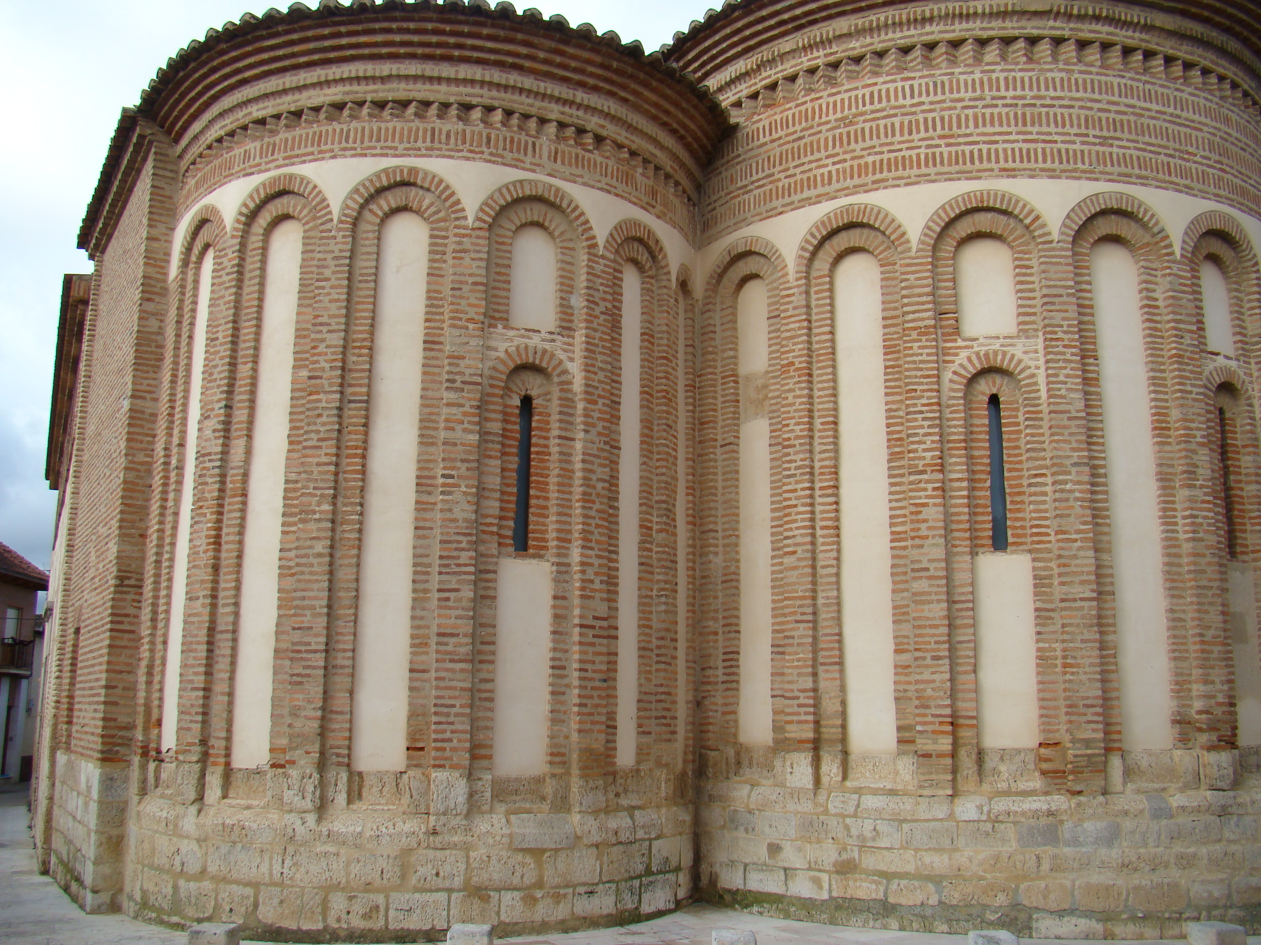 Apses of the mudejar church of San Salvador de Toro, Zamora (Spain). You can see the plinth made of stone with the rest of the construction made of bricks.